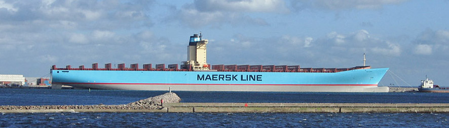 Emma Maersk at Århus harbour September 2006. Notice the ship in front of Emma Maersk for scale.